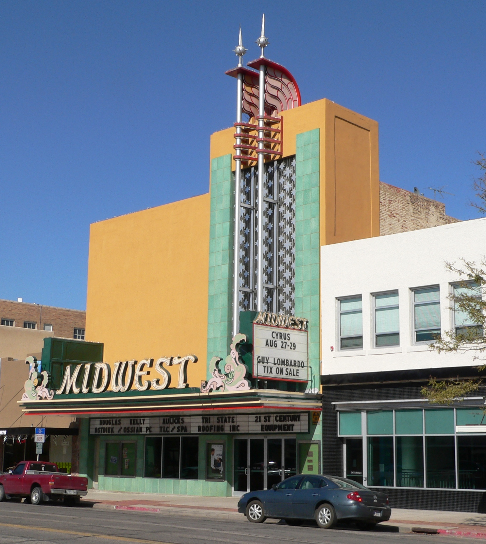 Midwest Theater on east side of Broadway between 17th and 18th Streets in Scottsbluff, Nebraska; seen from the southwest. The Modernistic building was constructed in 1946. It is listed in the National Register of Historic Places.